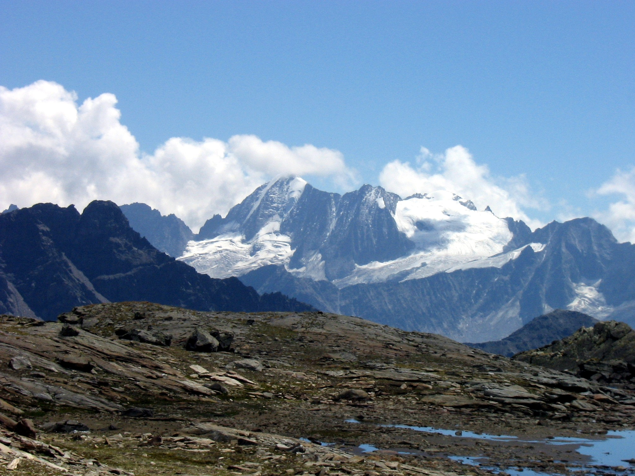 Cima Presanella (3558 mt, 11741 ft.) seen from Lake Ercavallo (2621 mt, 8649 ft.) near Ponte di Legno, Lombardy.